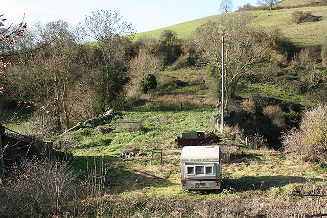 Dunkerton: aqueduct by Edelweiss Farm Looking west over the course of the Somersetshire Coal Canal. The canal followed the contours so that this structure was a shorter crossing of the valley than if it had been built further south. Seen from the A367 Radstock-Bath road, near the lay-by.